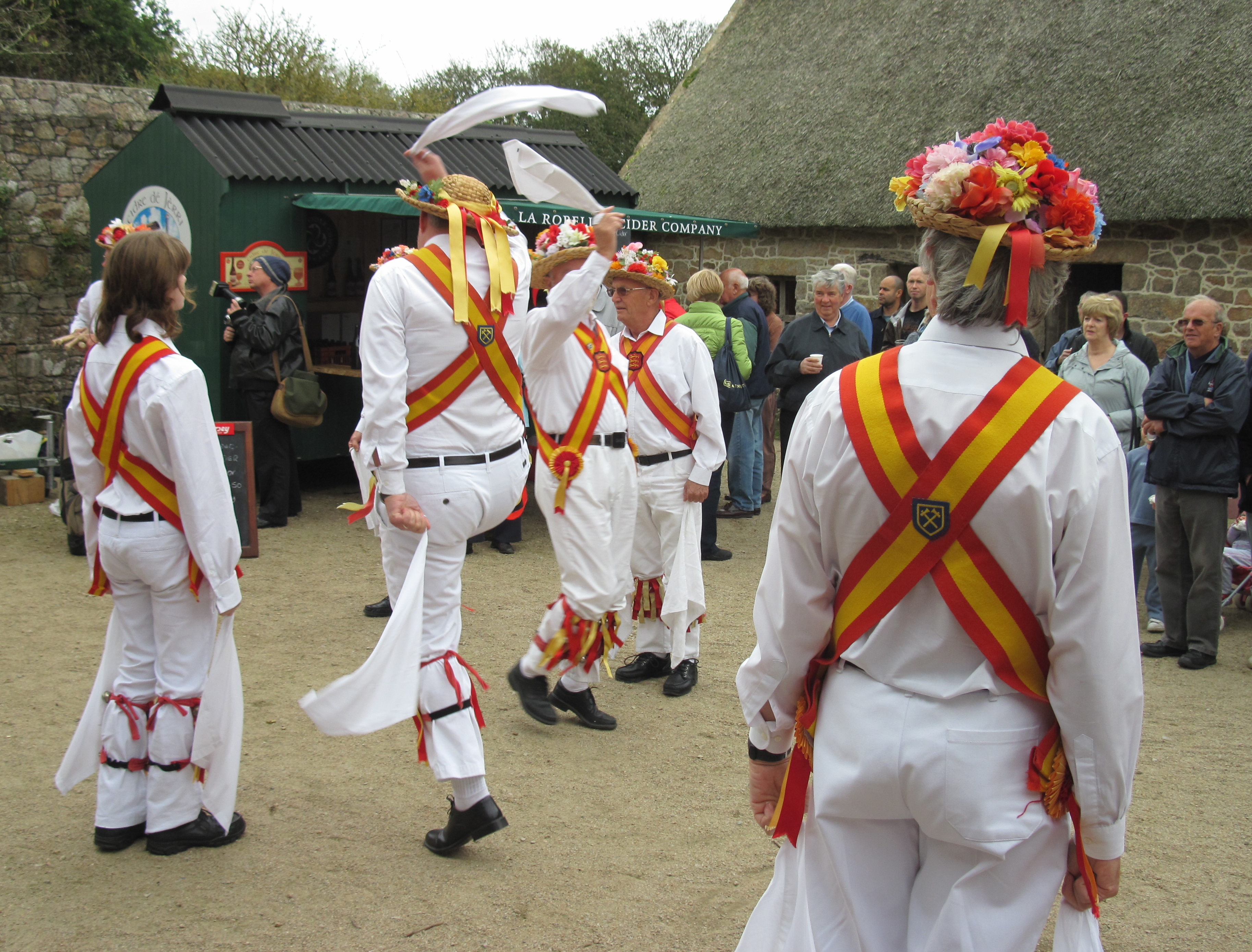 Helier Morris morris dance group, Jersey